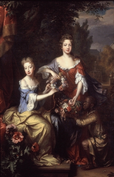 Oil on canvas 17th Century 82 x 53 inches 208.3 x 134.6cm